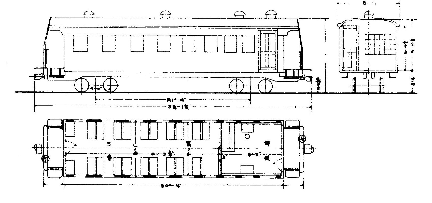 Type drawing of JGR's passenger car Fukohayu8060 (ex. Hokkaido Tanko Railway Sayu-61)